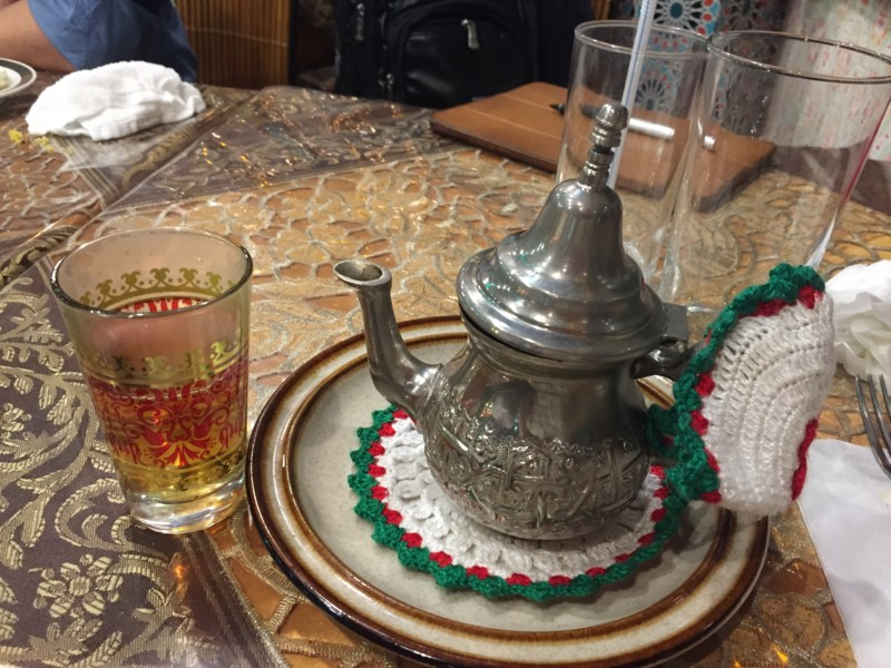 Moroccan mint tea at Alandalus, Tokyo.